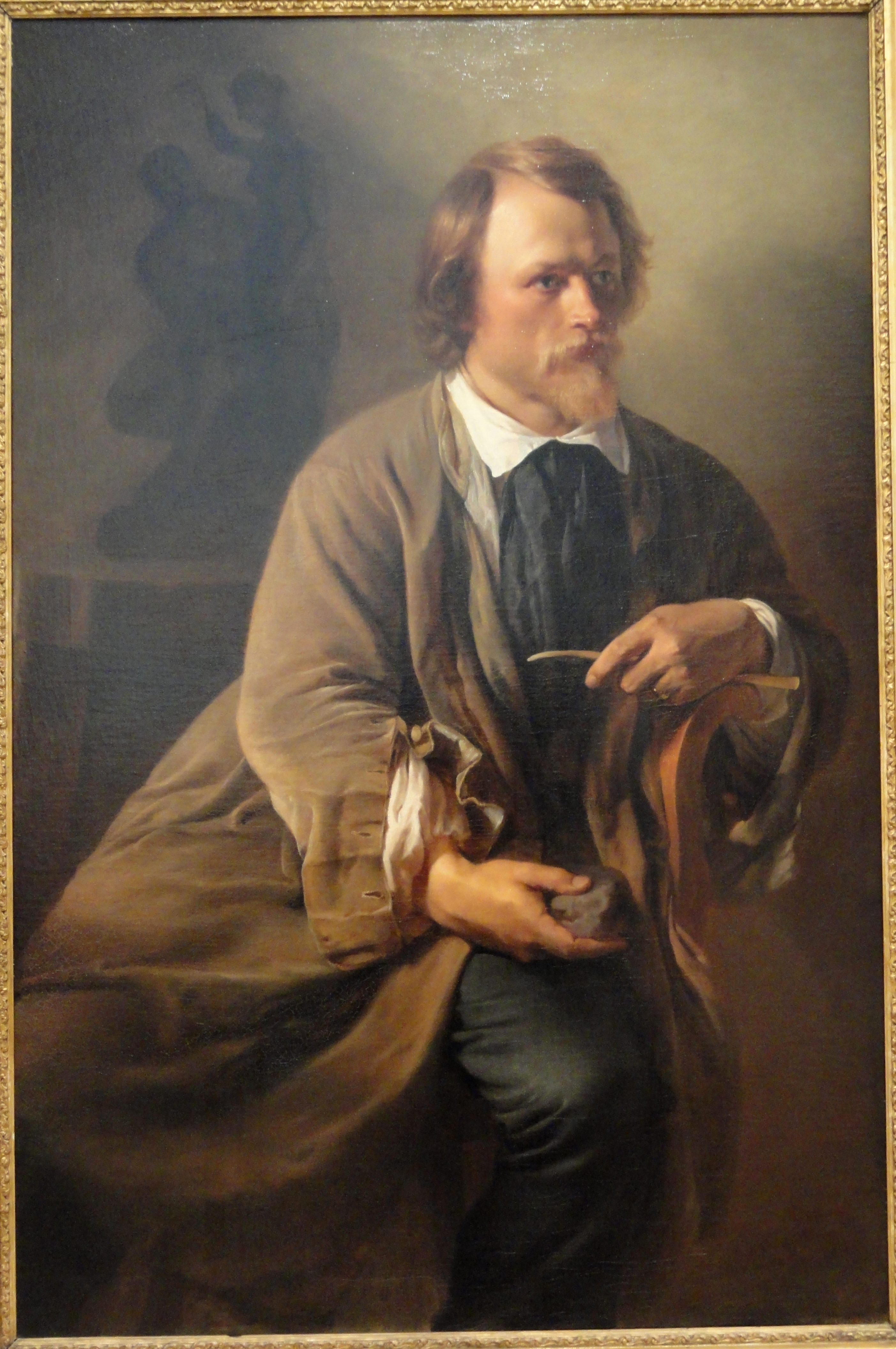 Exhibit in the Statens Museum for Kunst, Copenhagen, Denmark. Photography was permitted without restriction of all artworks old enough to be in the public domain. This artwork is in the public domain because its creator died more than 70 years ago.